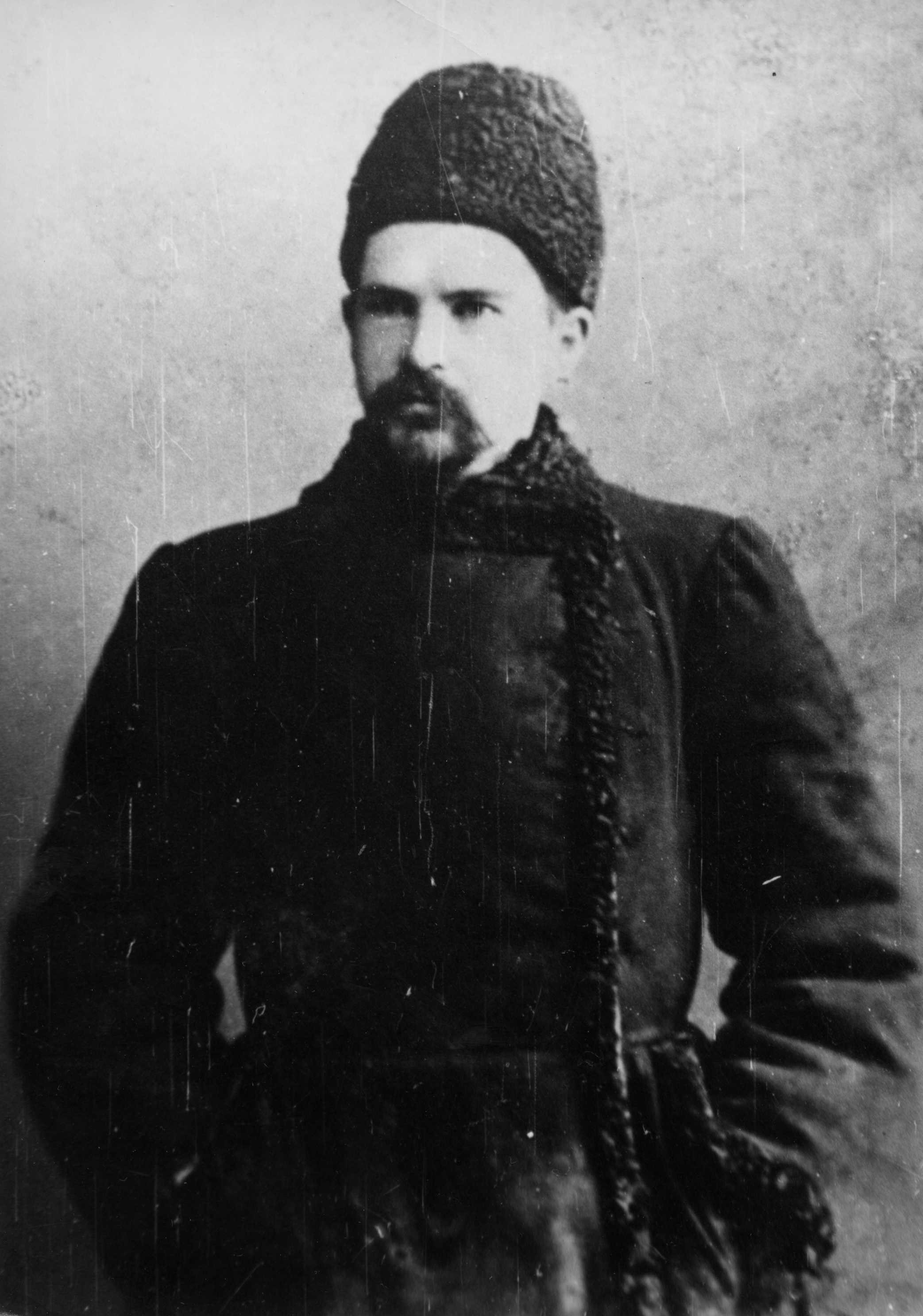 Russian gardener Bedro, Ivan Prokhorovich (1904)